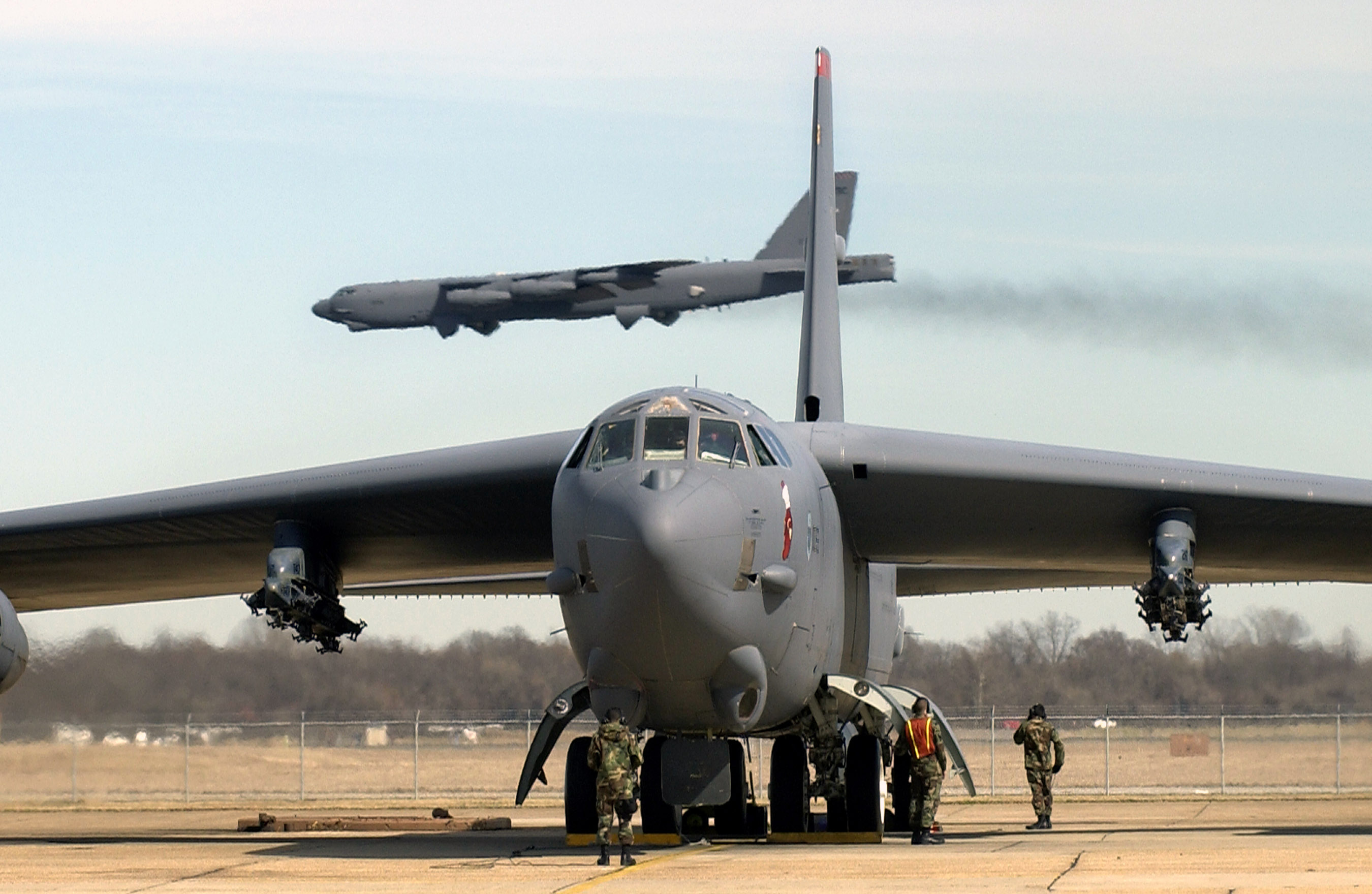 A B-52 prepares for departure as another B-52 arrives. The B-52 is capable of flying 8,800 miles without refueling and can carry a weapons load of up to 70,000 pounds. (U.S. Air Force photo/Tech. Sgt. Robert Horstman)